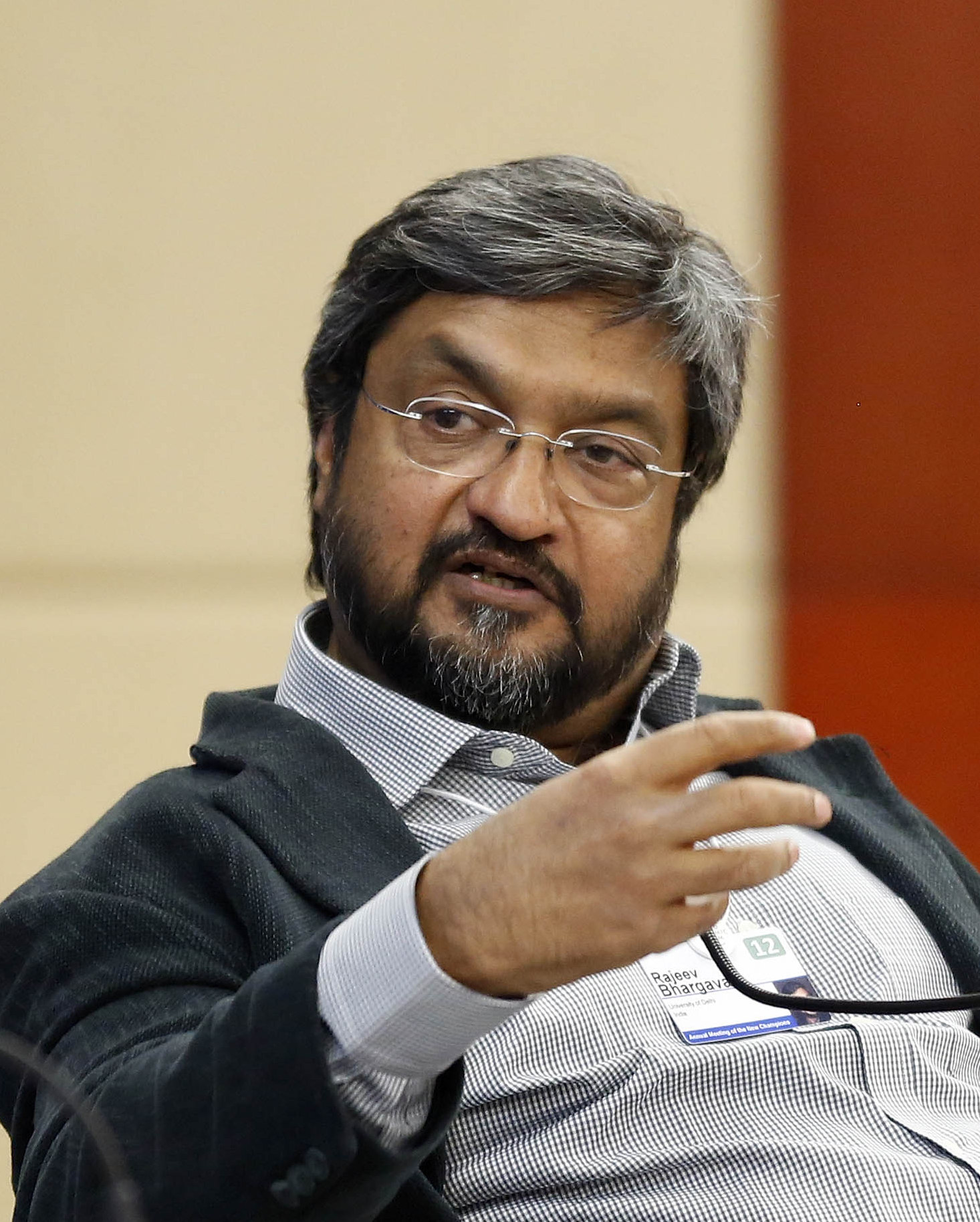 Rajeev Bhargava, Director and Senior Fellow, Centre for the Study of Developing Societies, University of Delhi, India at the Annual Meeting of the New Champions in Tianjin, China 2012